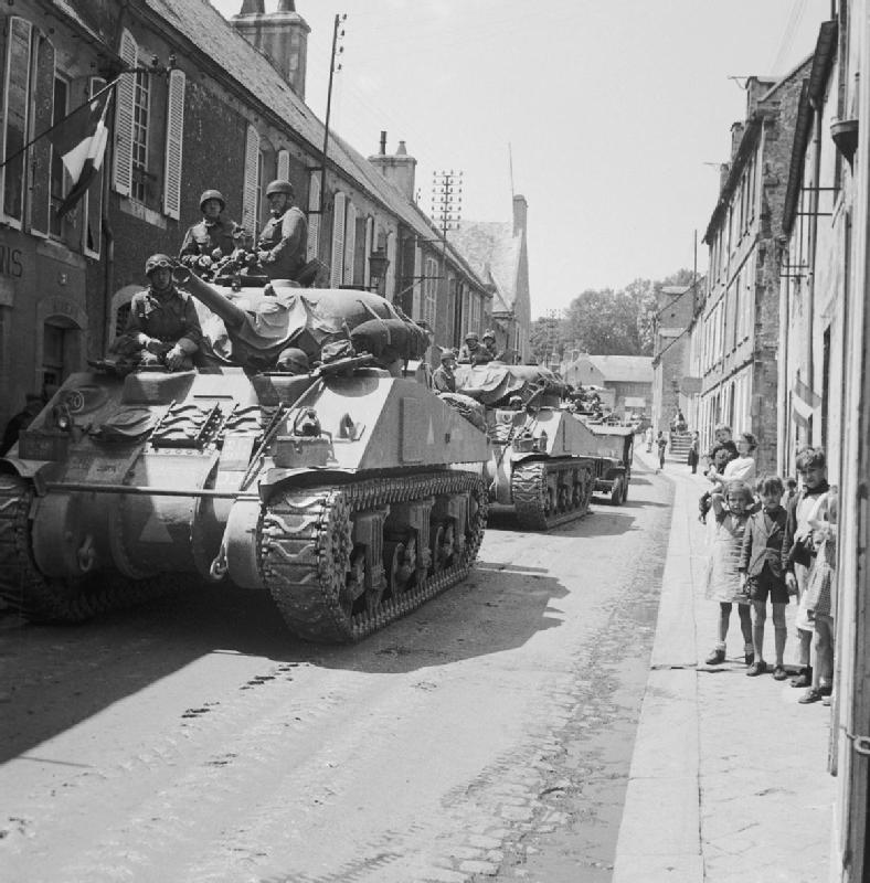 The Battle for Normandy: Sherman tanks of British 30th Corps passing through Bayeux, liberated by the British 50th Infantry.